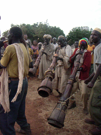 Berta people playing trumpets in a wedding (Komosha, western Ethiopia) by Ruibal.